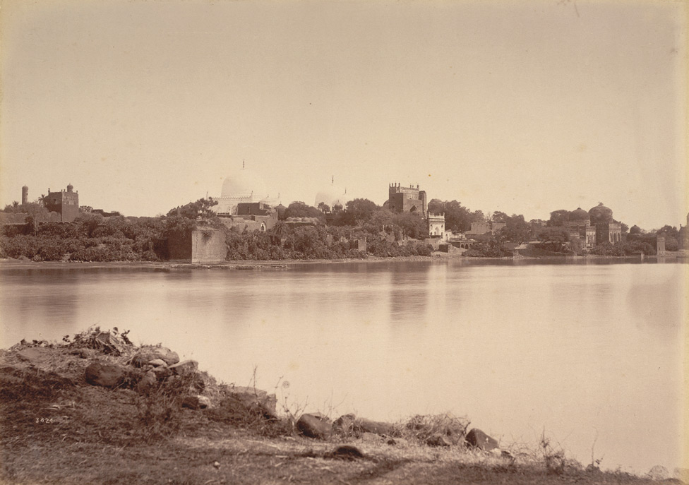 Dargah of Banda Nawaz, Gulbarga.